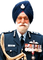 Arjan Singh Cropped This file is a cropped version.